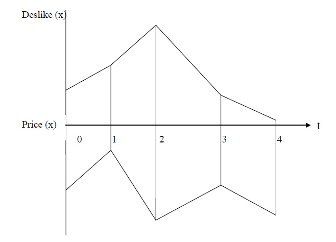 The file represents the link between the assets market price and unattractivness.